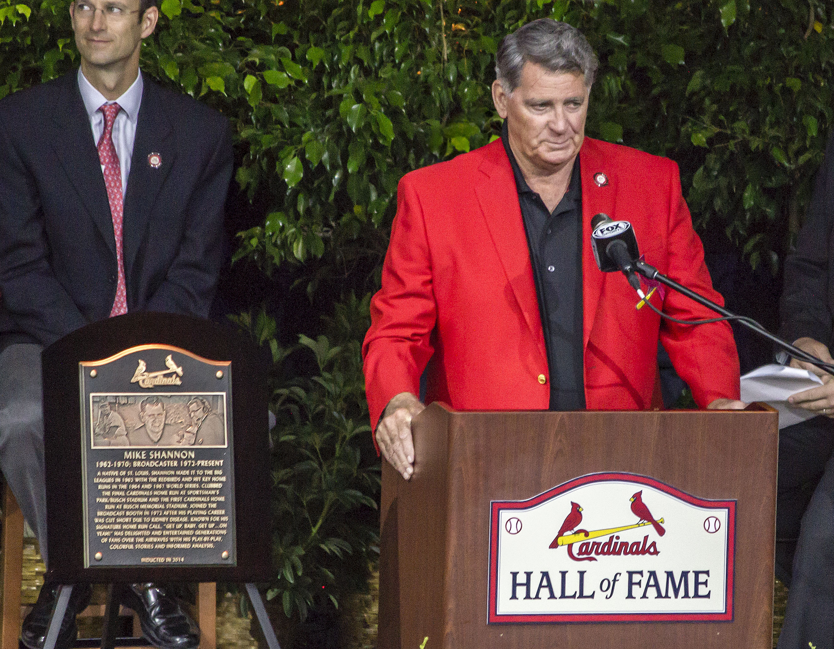 Broadcaster Mike Shanonn is inducted into the cardinals hall of fame.